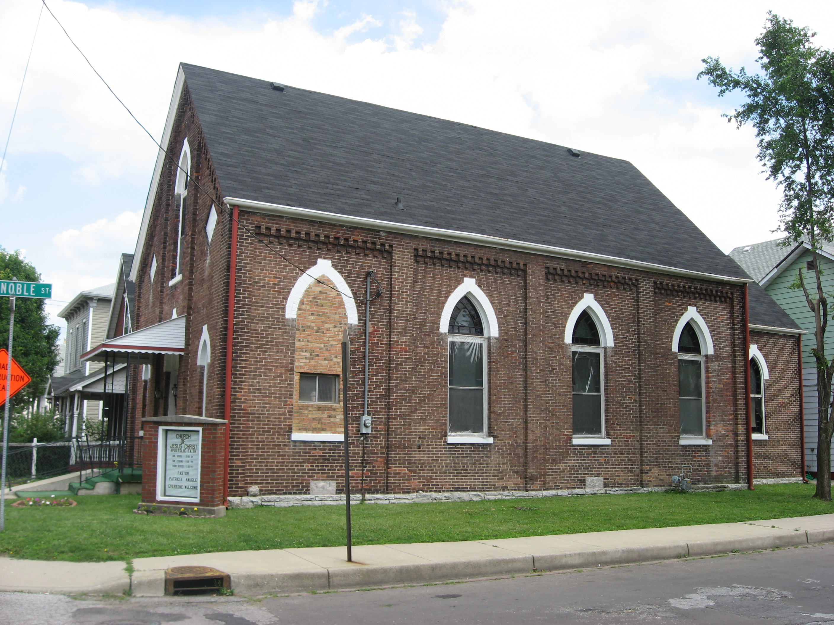 Front and western side of the Church of Jesus Christ Apostolic Faith, located at 701 E. McCarty Street in Indianapolis, Indiana, United States. Built in 1872, it was originally home to the first Danish Lutheran church in the United States. Today, it is one of the two namesake churches for the Holy Rosary-Danish Church Historic District, a historic district that is listed on the National Register of Historic Places.